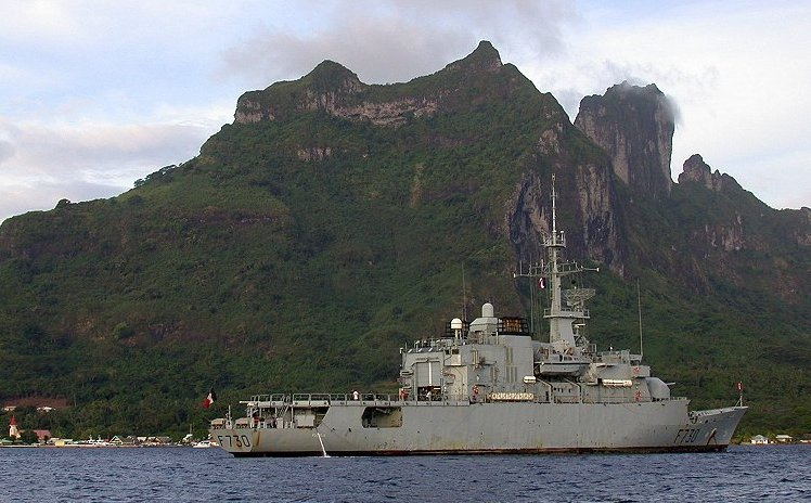 Frigate Floréal, at anchor in Bora-Bora lagoon (24th of Novembre 2002)